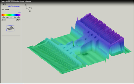 Example of MEMS measurement out of plane and surface topography